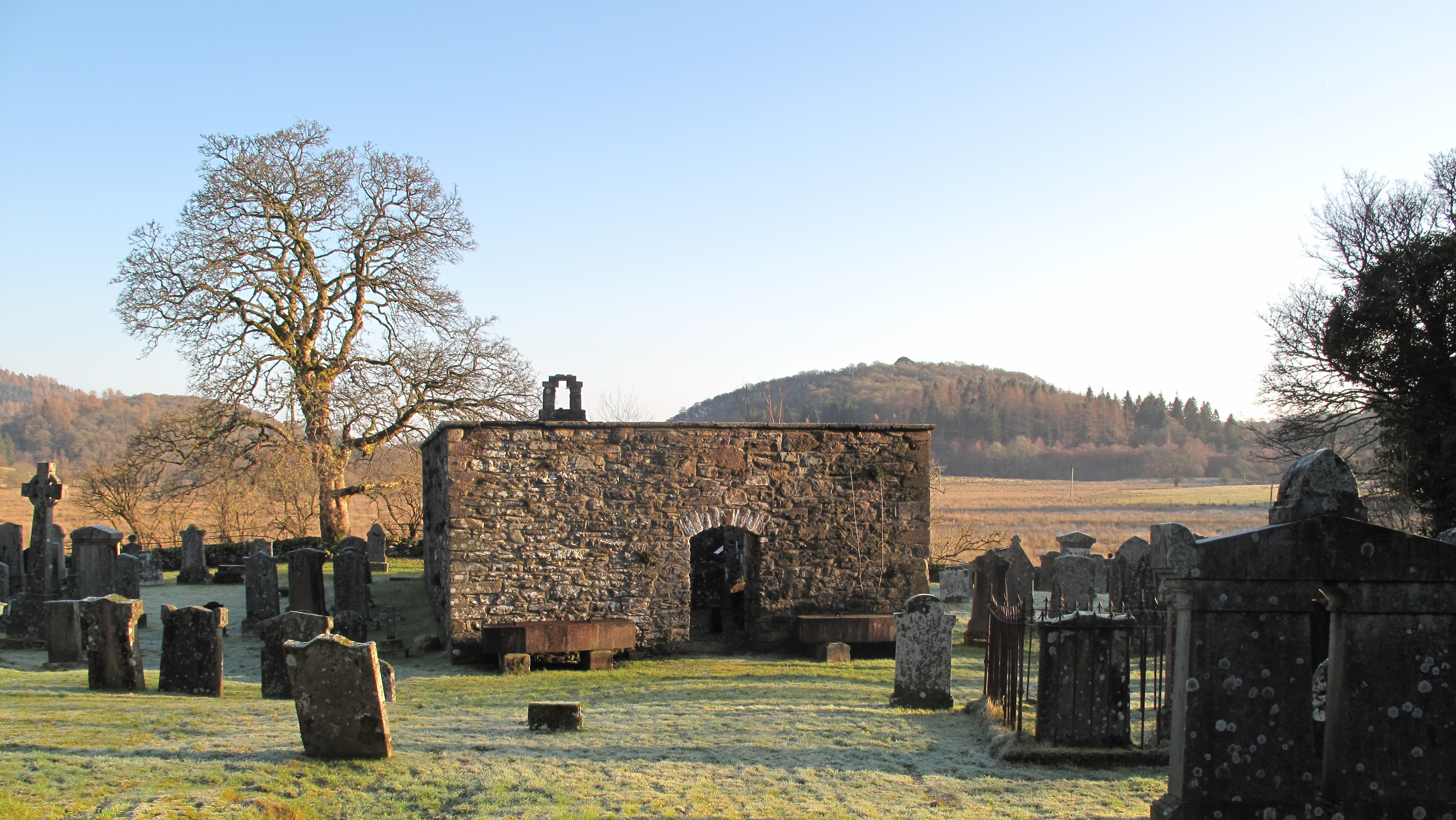 Image of the Old Kirk Graveyard in Kirkton Aberfoyle where visitors can see the grave of the Rev Robert Kirk and the Mort Safes at the entrance to the Old Kirk designed to thwart grave robbers